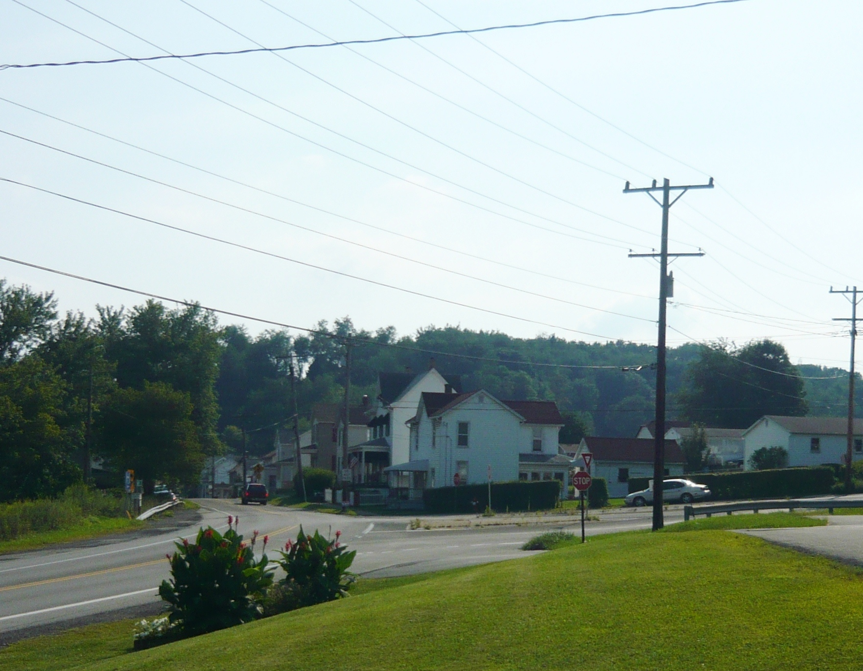 Lloydsville, Unity Township, Westmoreland County, Pennsylvania. Looking toward the southwest along Unity Cemetery Road from the junction of that road with Unity Street and Pennsylvania Avenue.